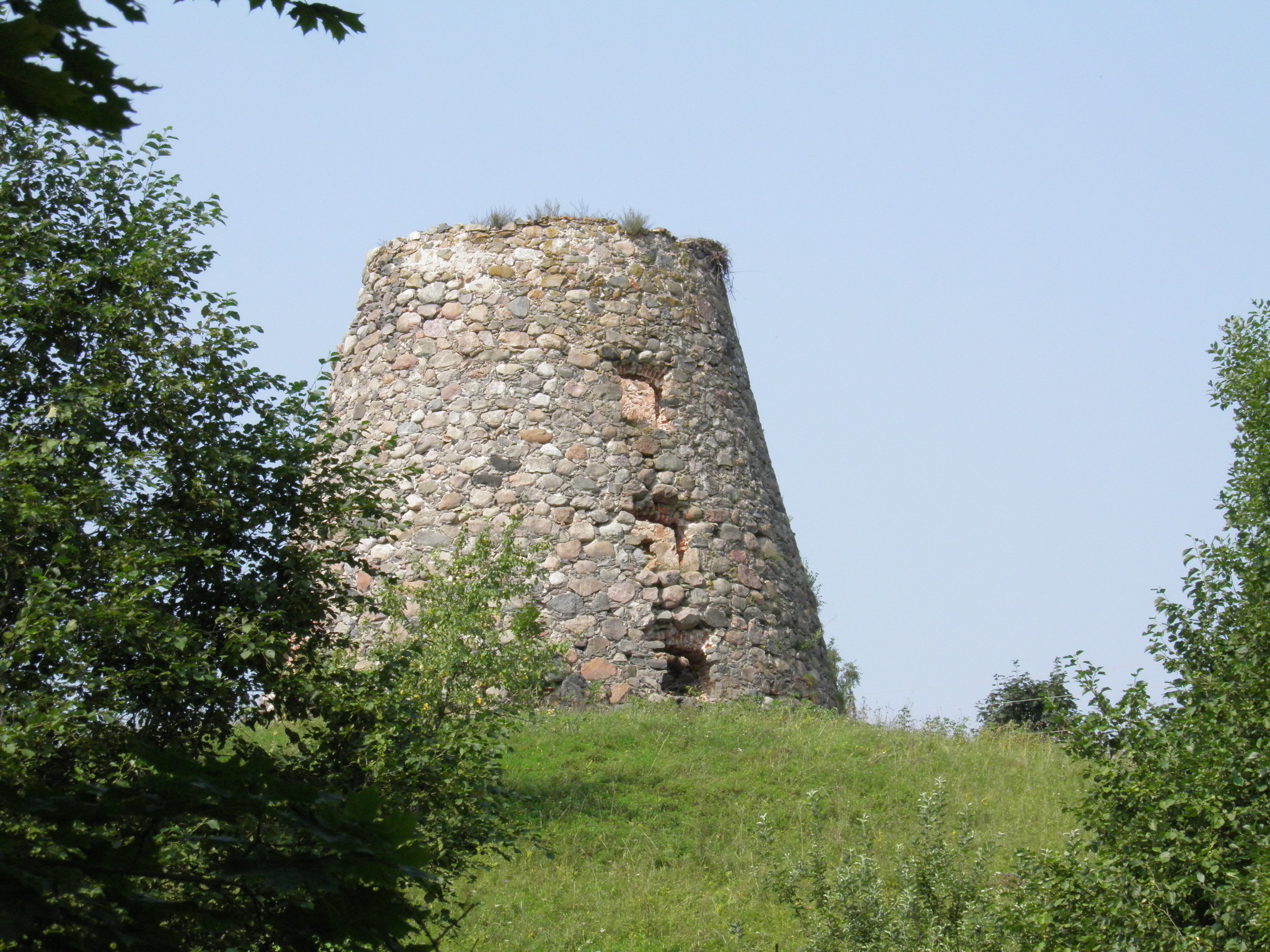 wind mill